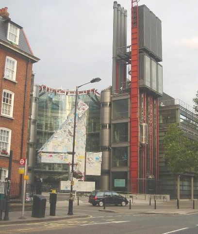 Cropped & lightened version of image taken by (Adaircairell (talk) 22:59, 16 June 2008 (UTC)) of the Channel 4 building in Horseferry Road, taken on the 16 June 2008.